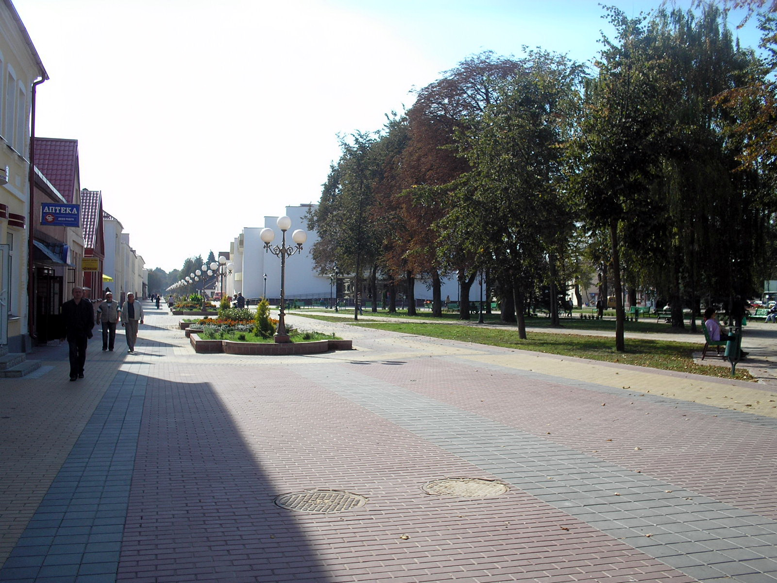 Kobryn_after_Dozhinki